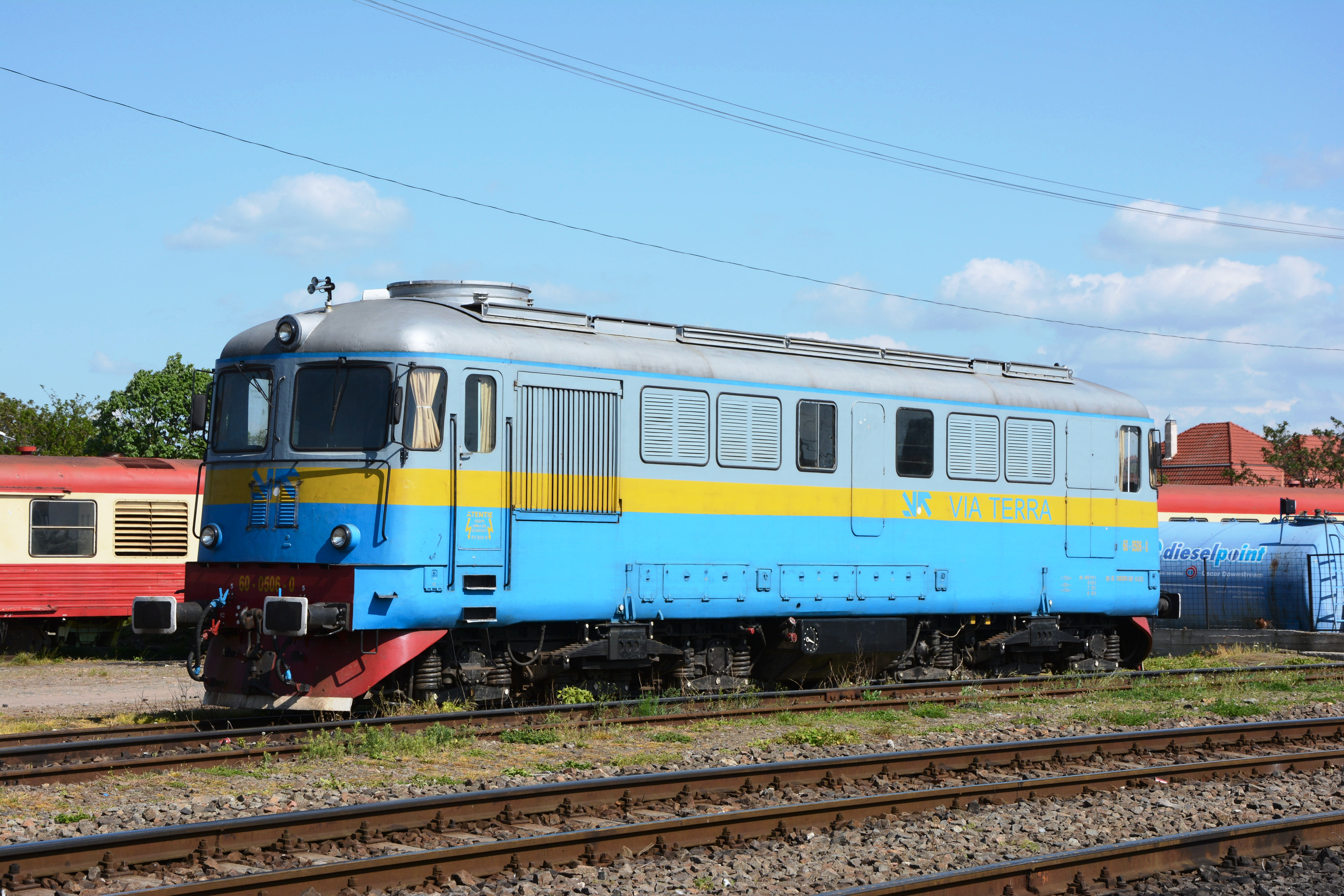 60-0506 of Via Terra Spedition; Marghita, Romania